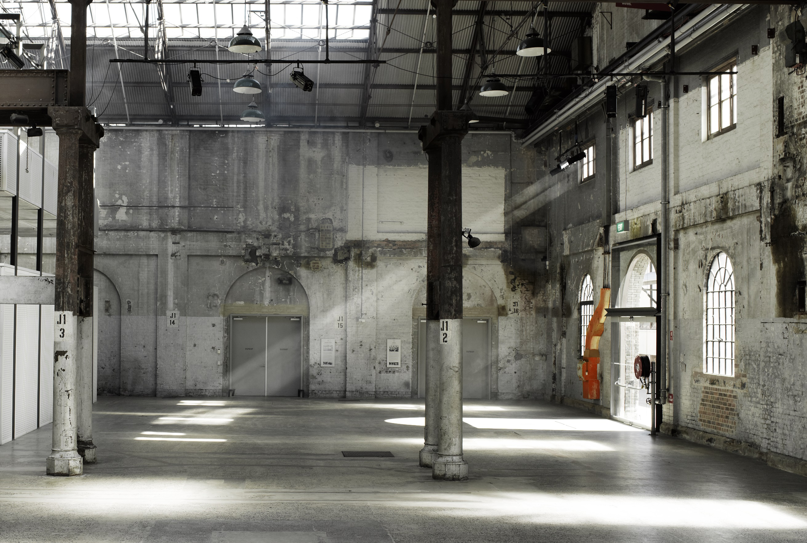 Carriageworks - Image:Toby Burrows